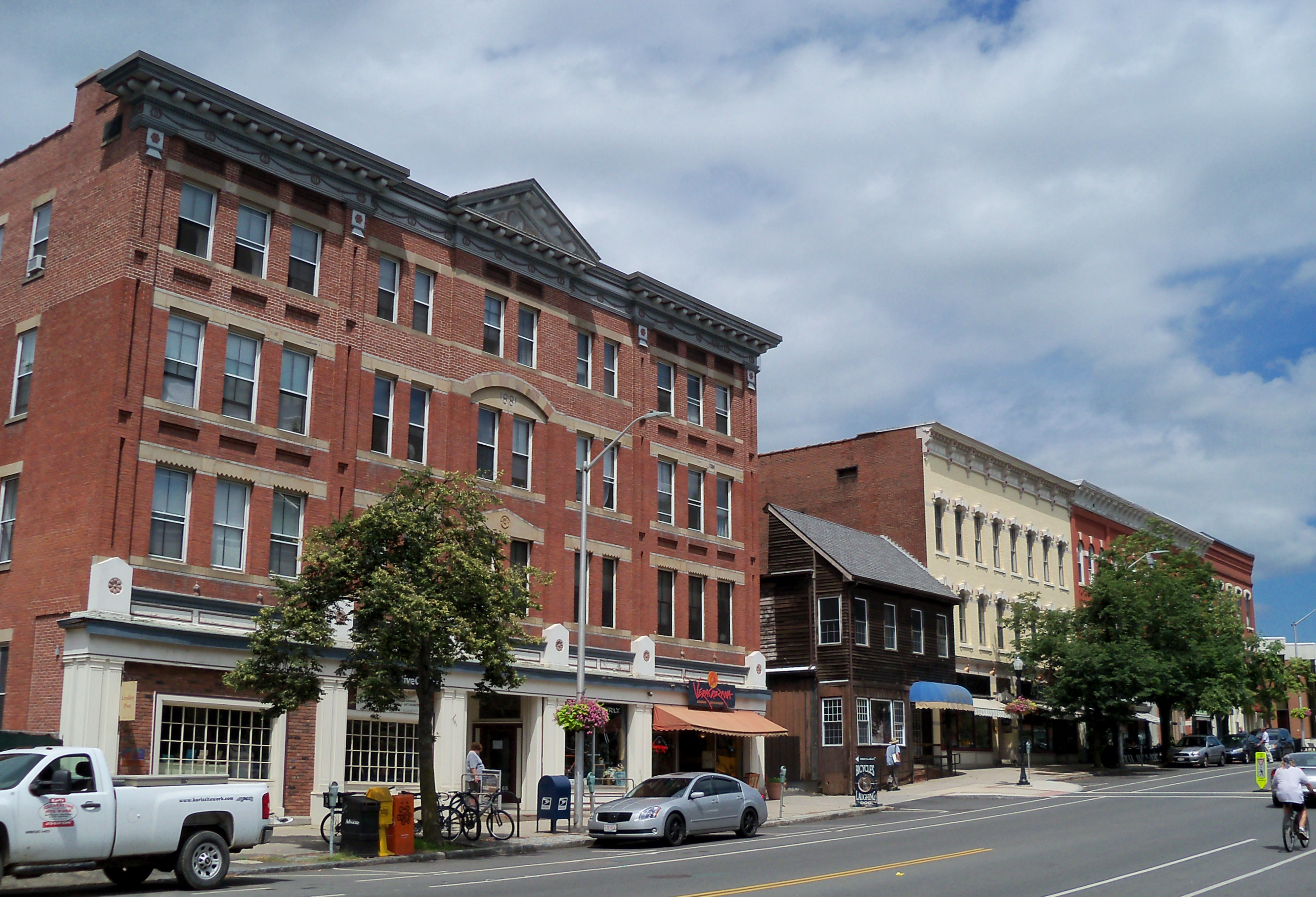 Downtown Amherst, Massachusetts, USA.